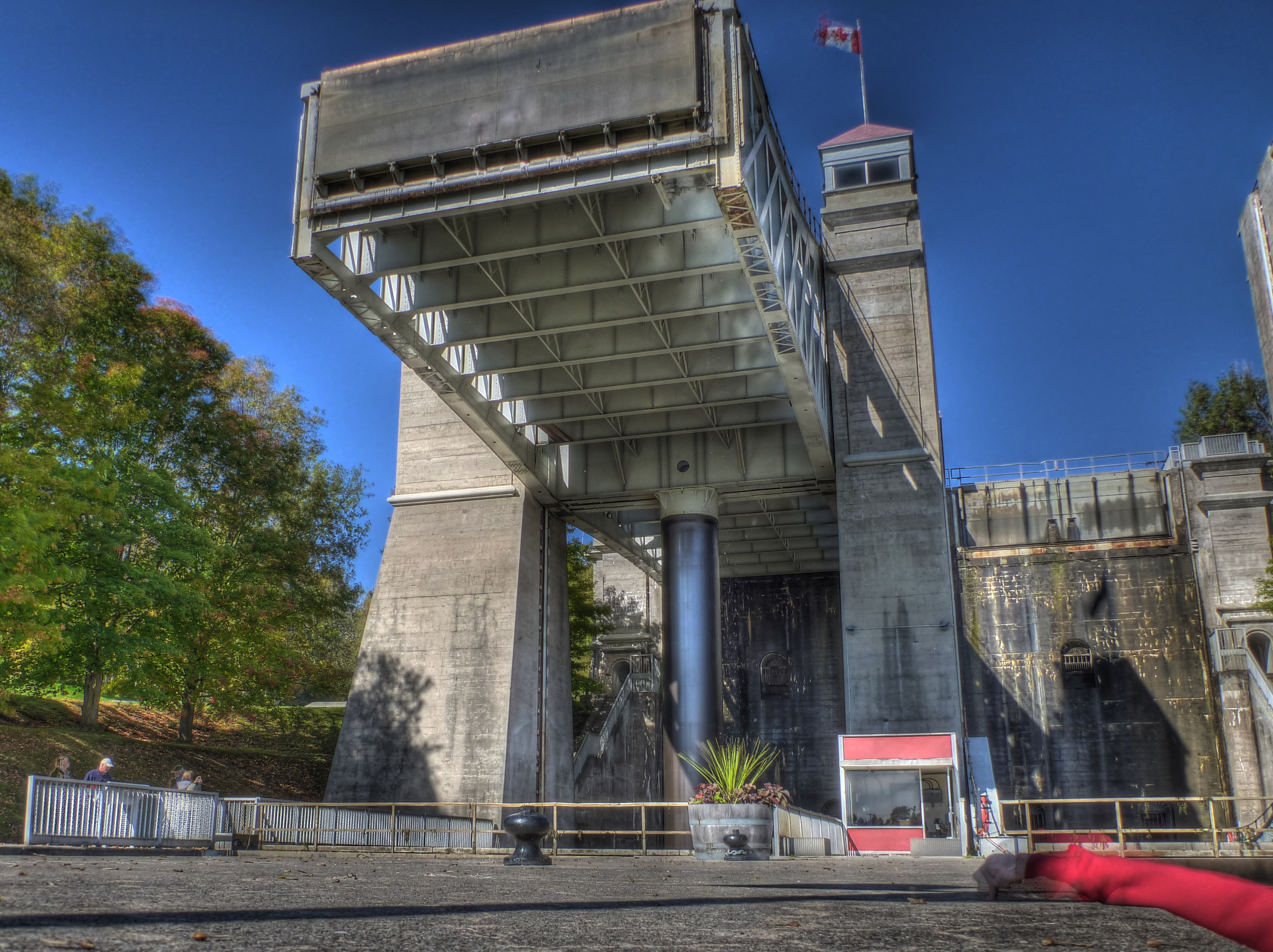 Peterborough Lift Lock